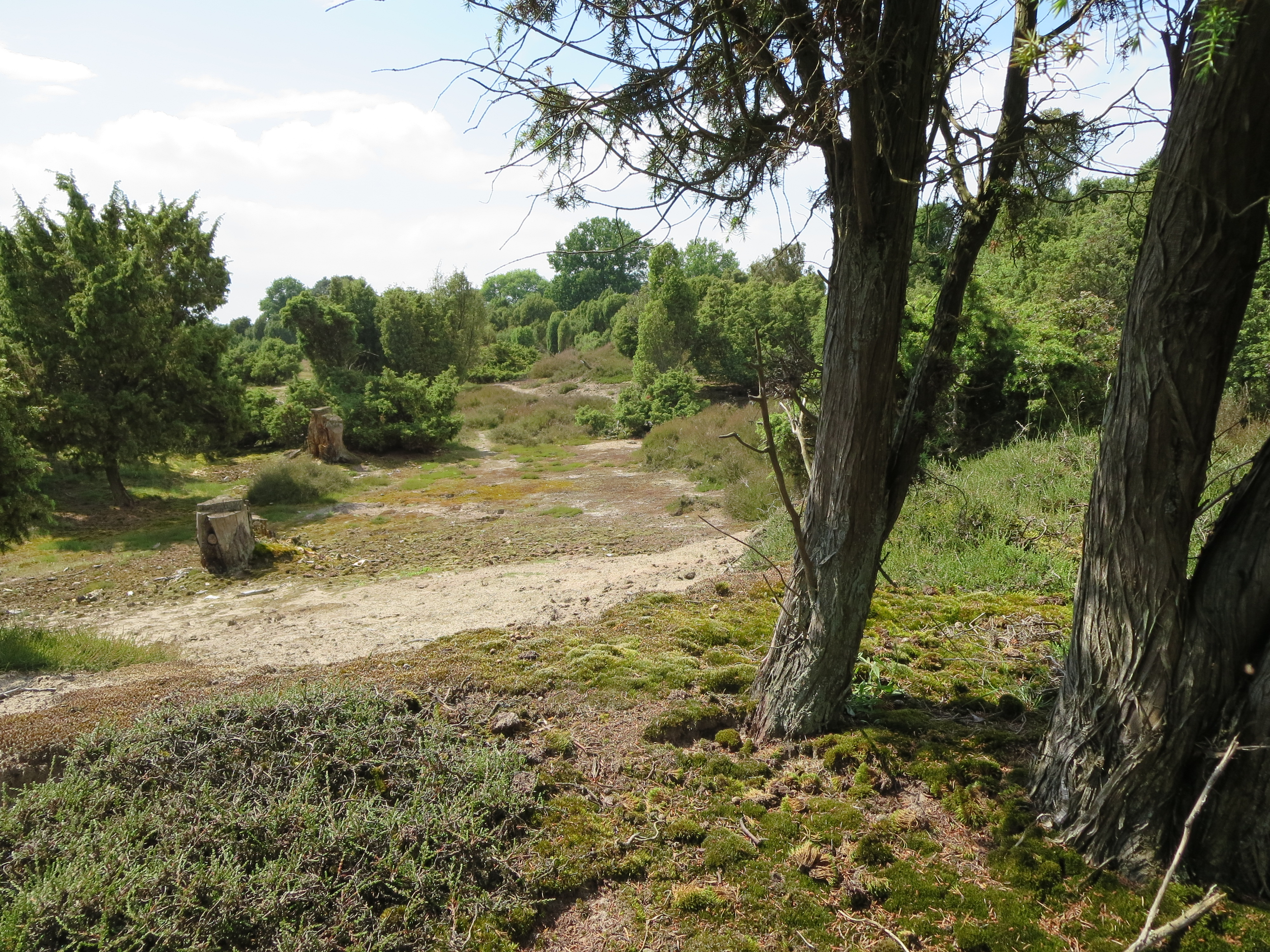 view to the reserve with heathers and common juniper as indicators (Picture taken: early June)